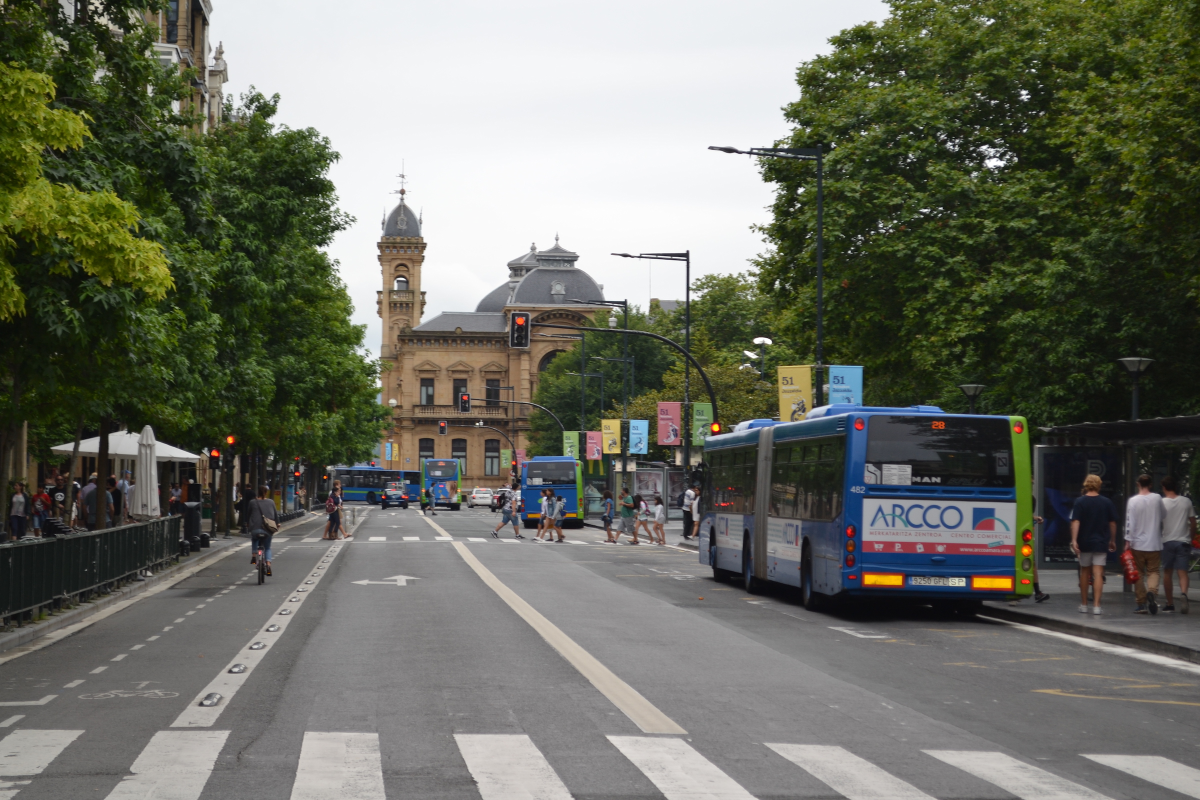 Town hall of Donostia-San Sebastián